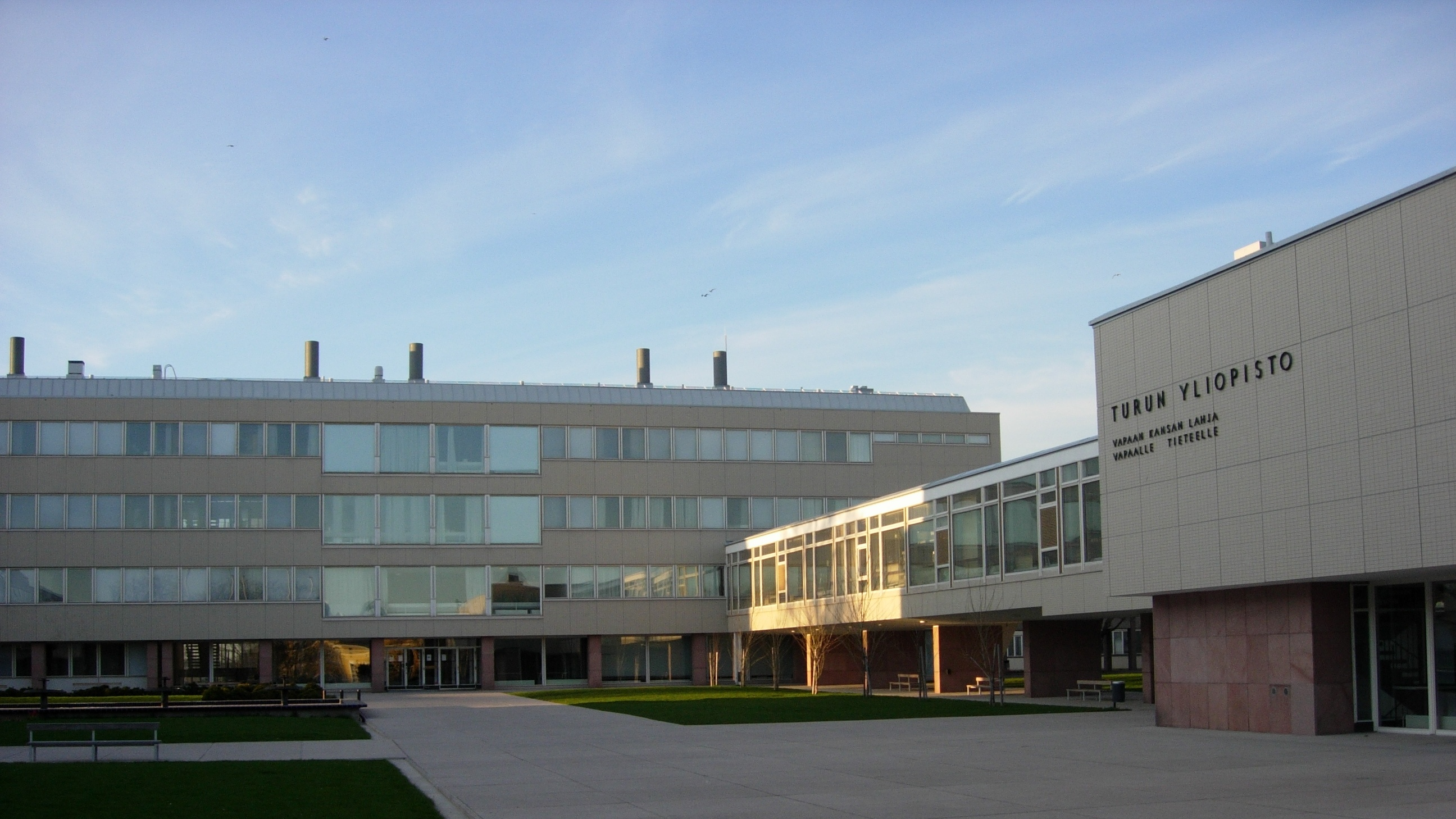 University of Turku, buildings from 1950's. On the right Main Building. On the left side behind opening is Natural Science Building I. Between them is a elevated tunnel, which has cafe inside.